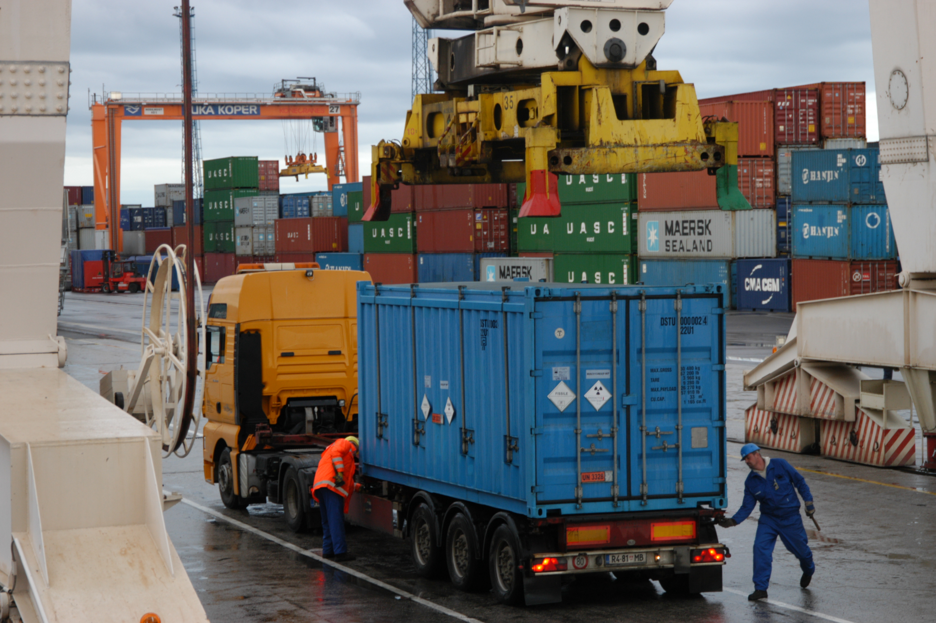 IAEA Coordinates Nuclear Fuel Shipment From Serbia Shipping containers are moved on board the cargo ship, the Puma (Koper, Slovenia; 21 November, 2010). Copyright: IAEA Imagebank Photo Credit: Greg Webb/IAEA